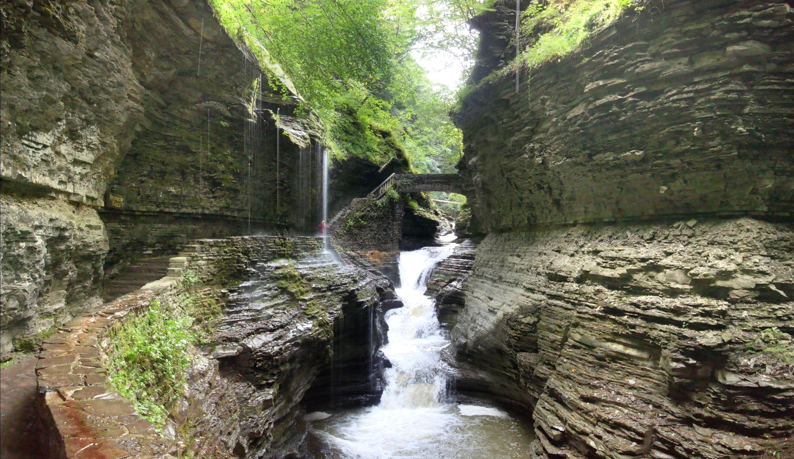 Panorama shot created from pictures I took at Watkins Glen State Park, NY (September 2007) using Autostitch.